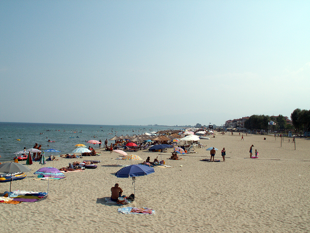 Olympiaki Akti (Olympic Beach)